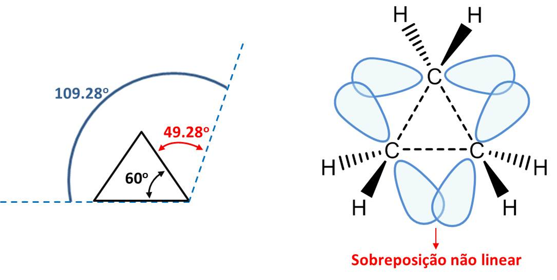 ciclopropano